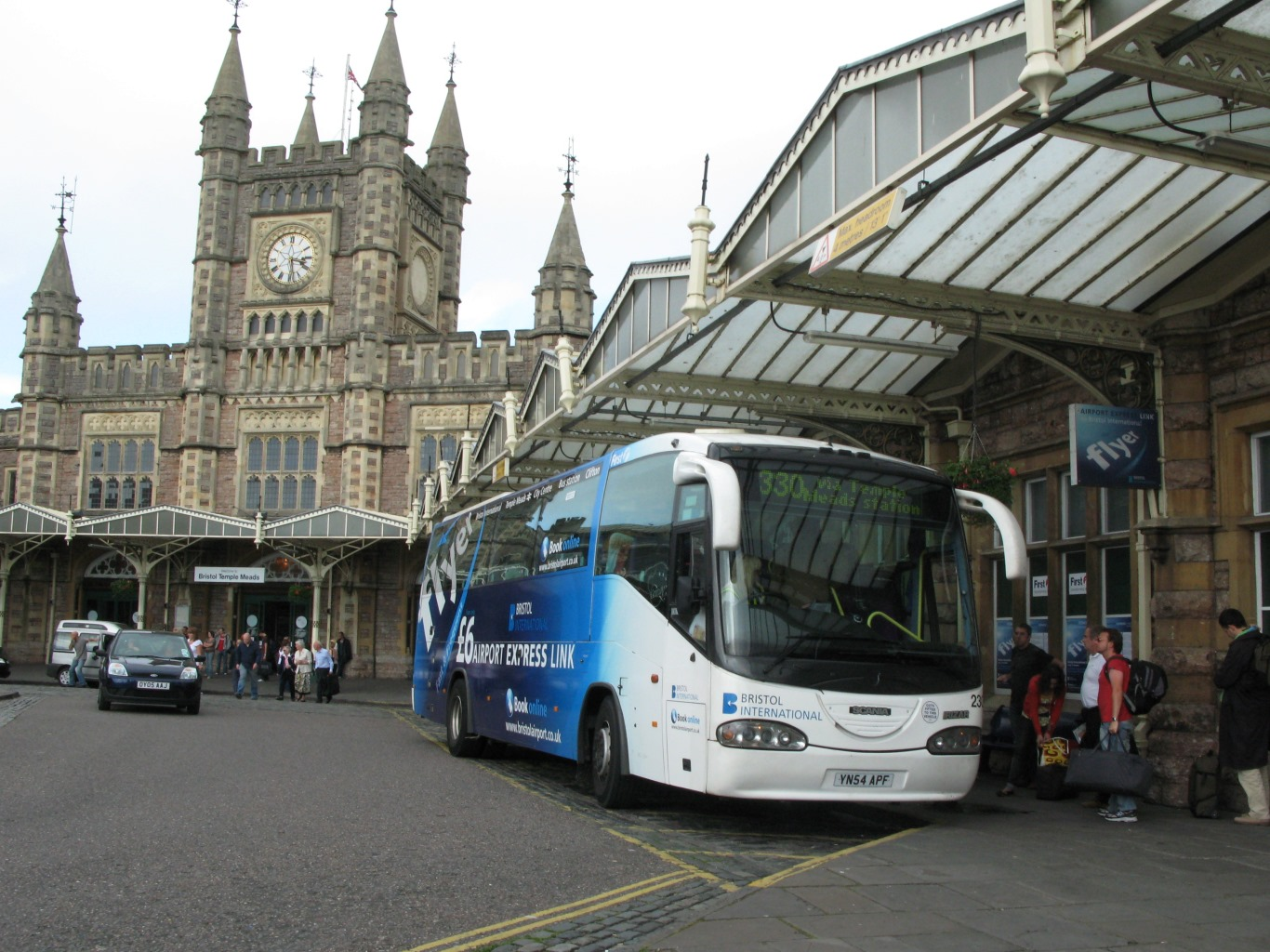 The Bristol Airport Flyer coach service picking up at Temple Meads railway station, Bristol, England. The Scania coach is First Coaches number 23012 (registration YN54APF).